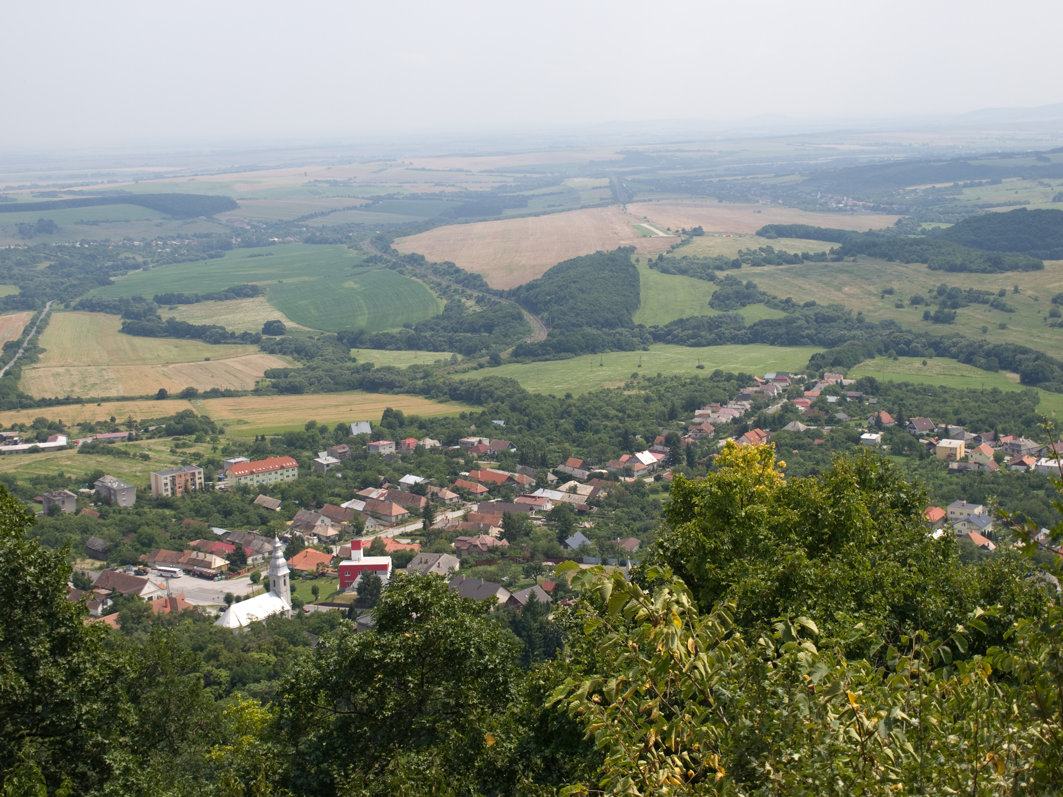 View from castle, Slanec, Košice-okolie District